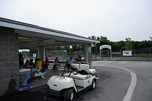 Shelter and golf cart shuttle at New York State Fair station in August 2011